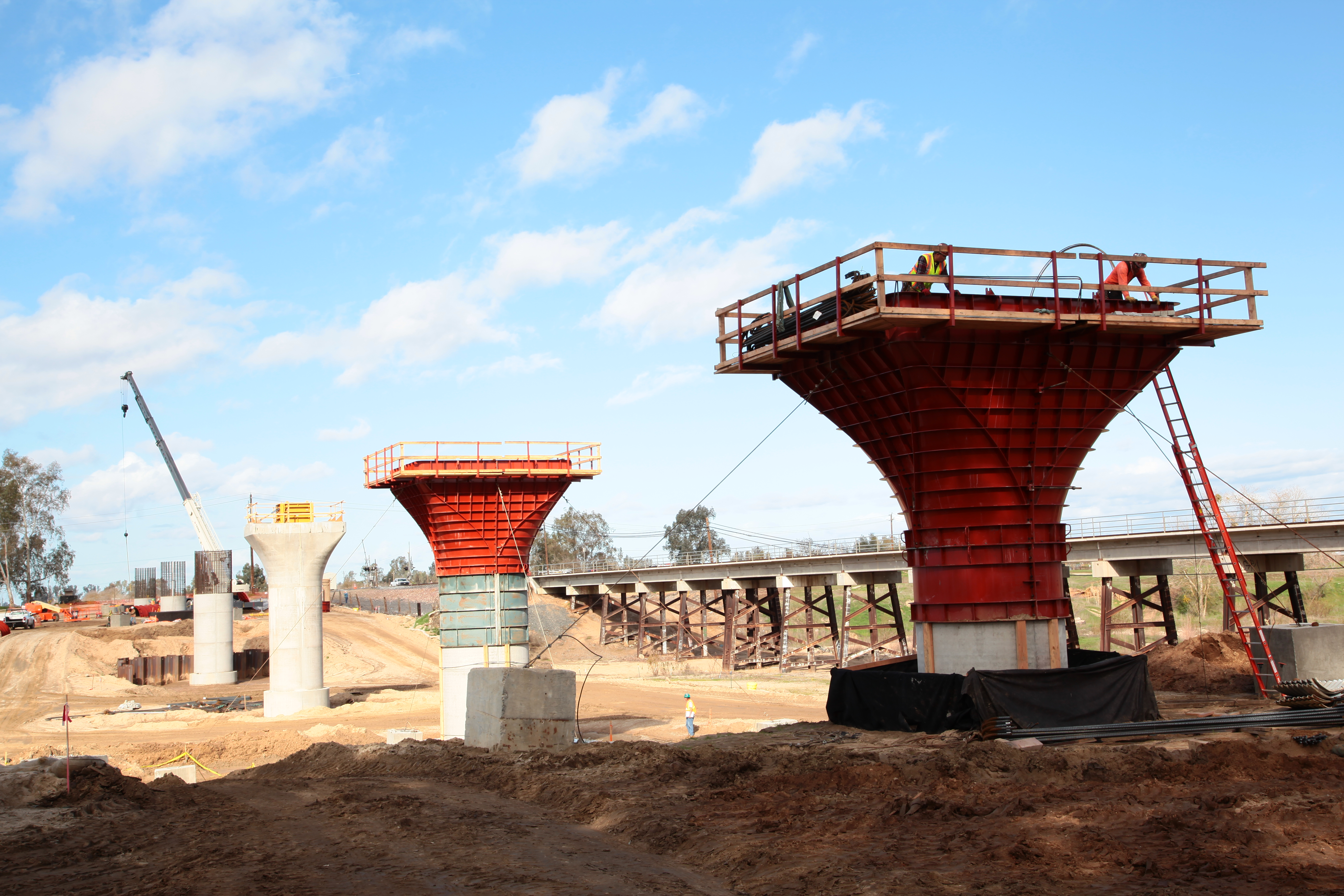 Construction of the Fresno River Viaduct in January 2016. The bridge is the first permanent structure being constructed as part of California High-Speed Rail. The BNSF Railway bridge is visible in the background.